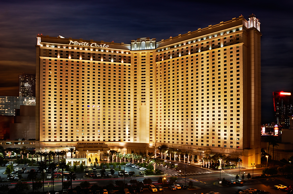 Exterior view of Monte Carlo Resort and Casino released by MGM Resorts International under Attribution-ShareAlike Creative Commons license specifically for use on Wikipedia.